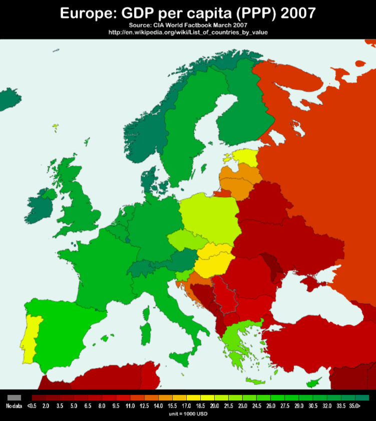 Europe GDP per capita (PPP). Figures taken from CIA World Factbook March 2007 (see here). Map colorized with a custom colorizing script.